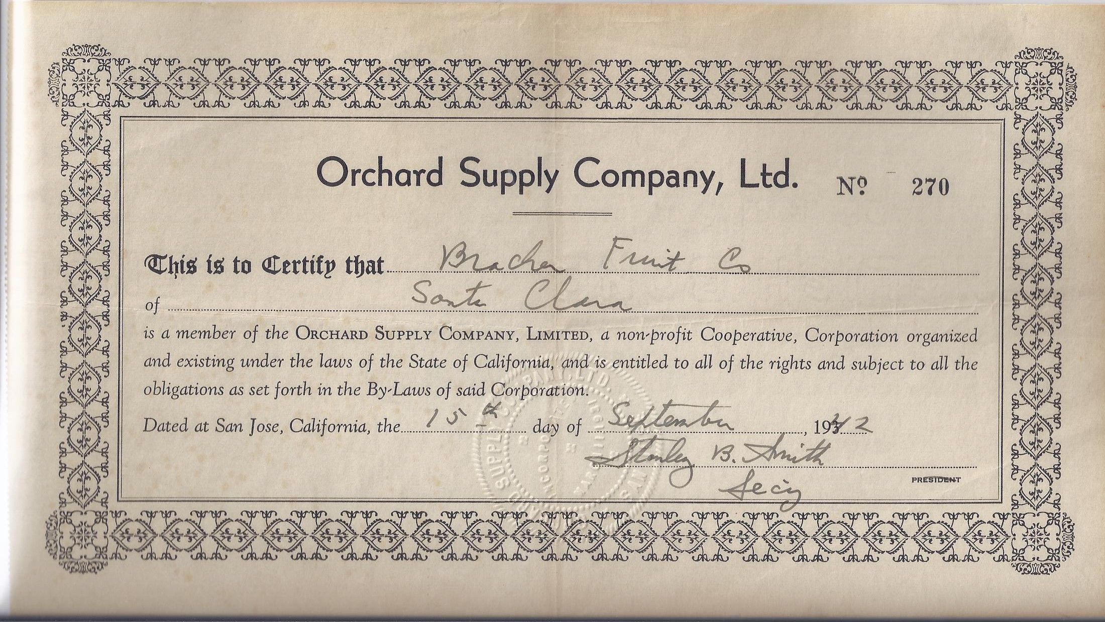 This is a scan of an original Orchard Supply Hardware (Farmers Co-op) membership certificate signed by Stanley Smith, Secretary, and issued to the Bracher Fruit Company of Santa Clara, CA, on September 15th, 1942. This certificate was a replacement for the original one issued in 1931, in 1942 the company changed its name from Bracher Bros. Fruit Company.